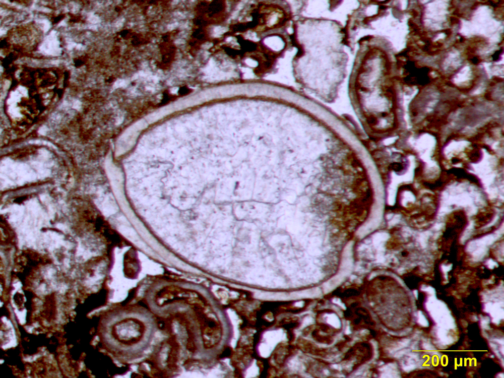 Cross-section view of an ostracod from the Permian of Texas (Valera Formation, Artinskian); thin-section.